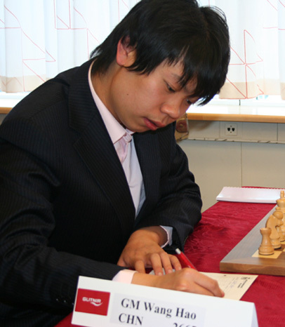 Wang Hao, Chinese chess player